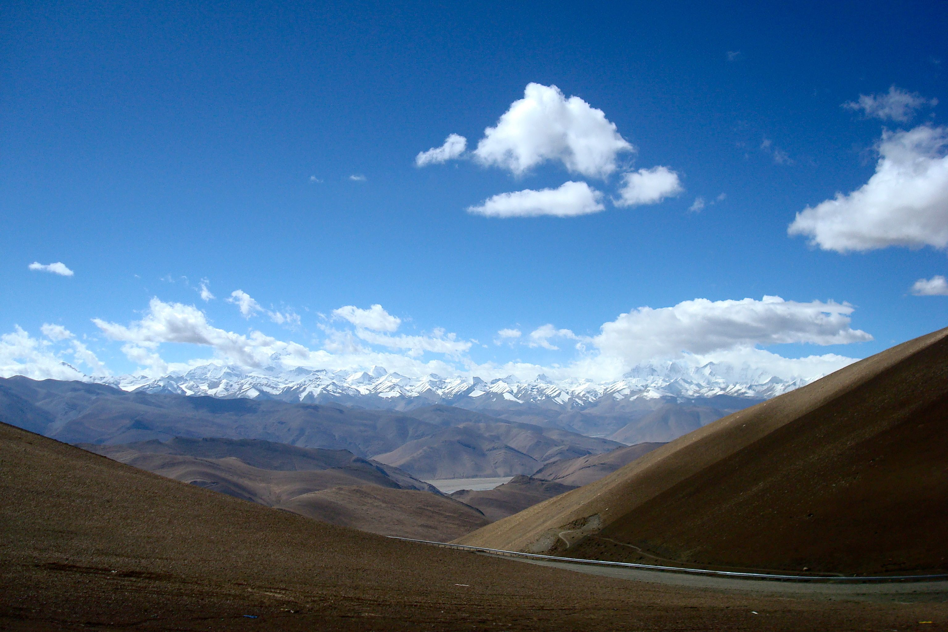 Panorama from Pang La looking south toward Kumbu Himalayan Range